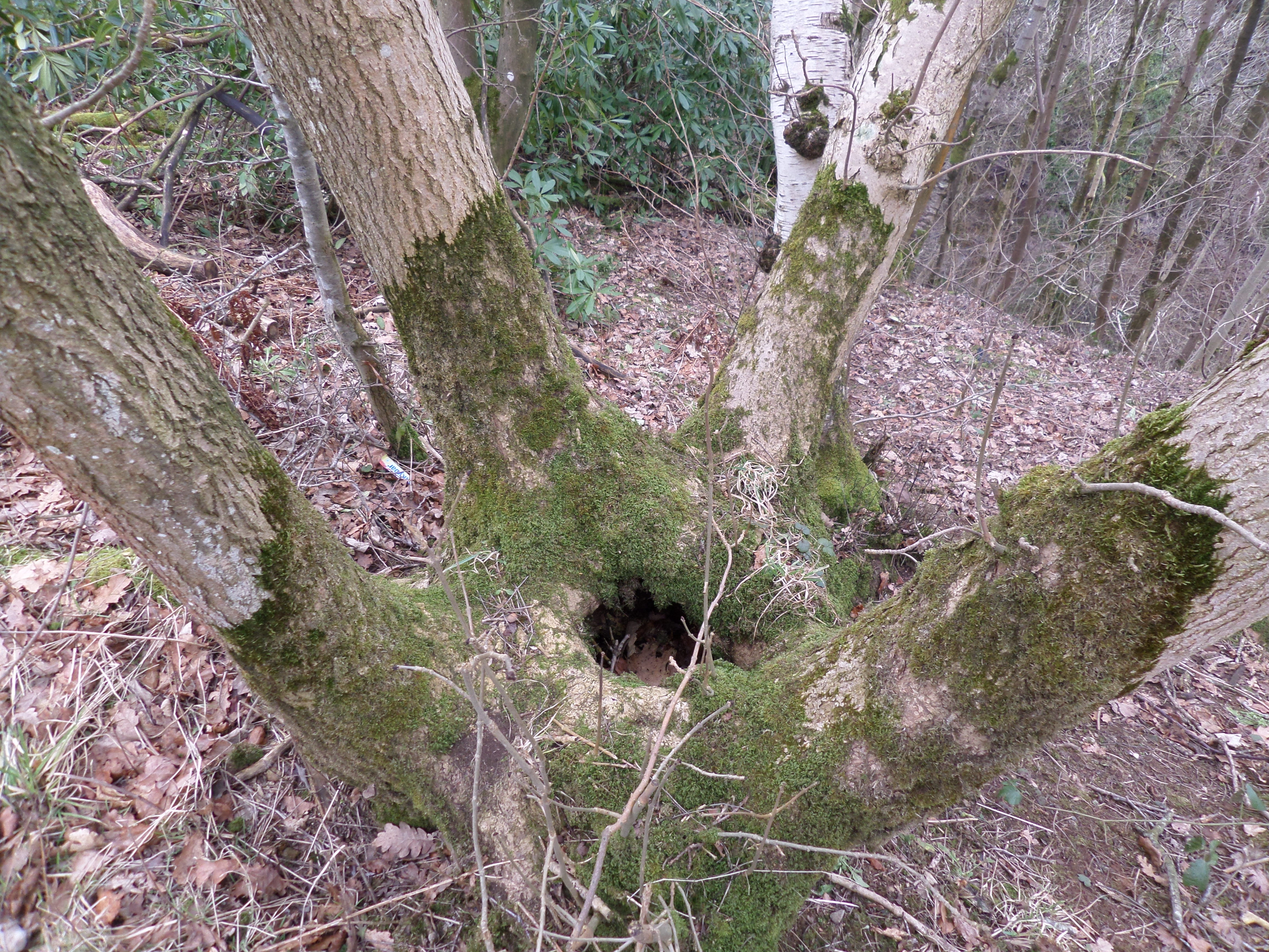 The coppiced bowl of an Ash (Fraxinus excelsior) at Catrine, River Ayr Way, South Ayrshire, Scotland.